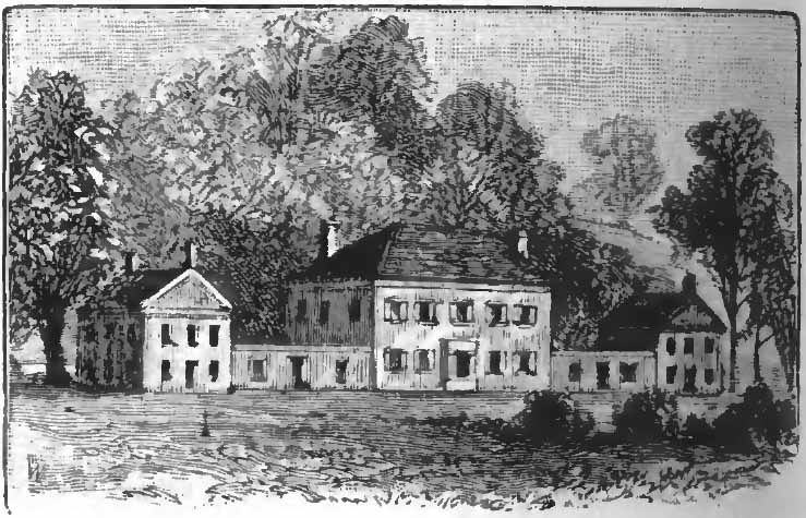 Drawing of the dwelling Harman Blennerhasset erected on an island in the Ohio River.